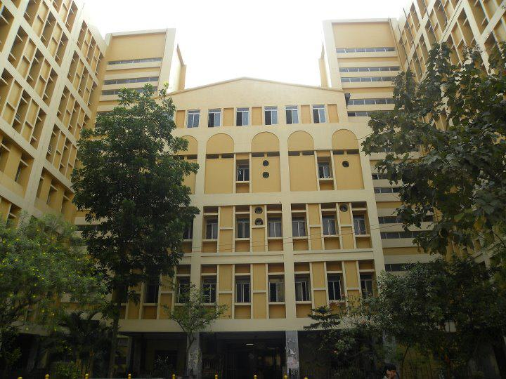 Academic Building of RGKMCH